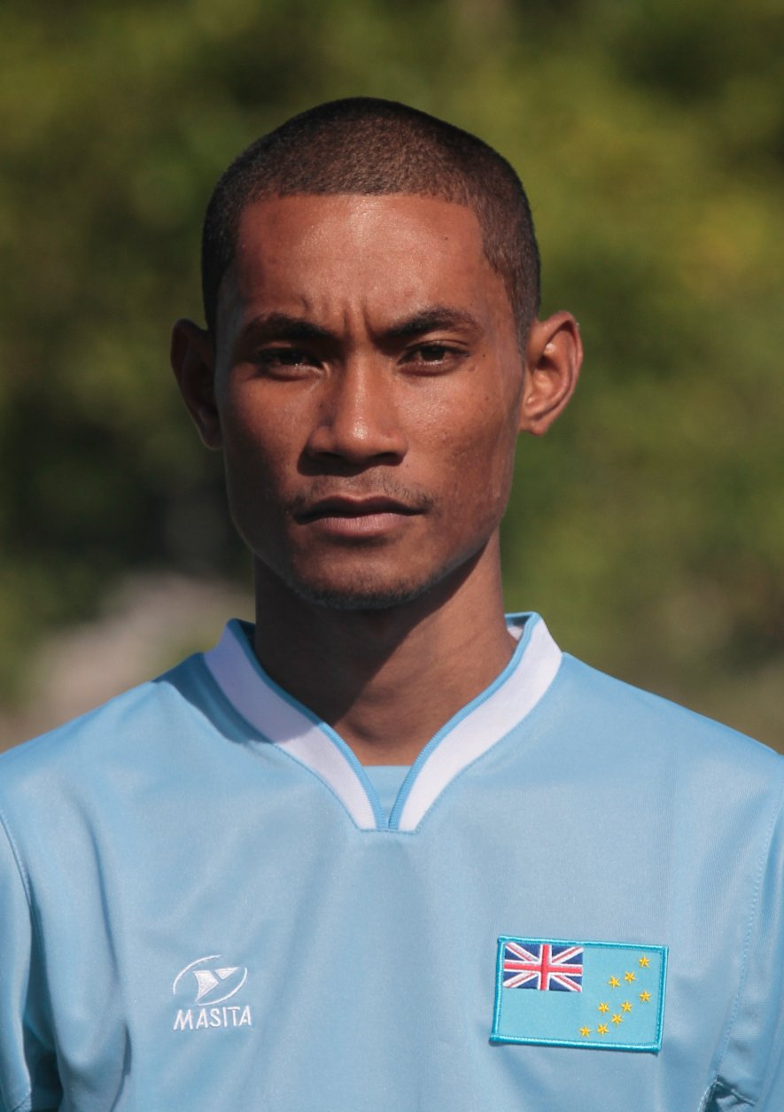 Reme_Timuani